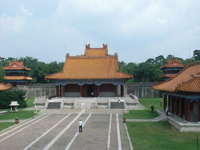 Xiang Palace Fuling Tomb Shenyang. Source: owne.